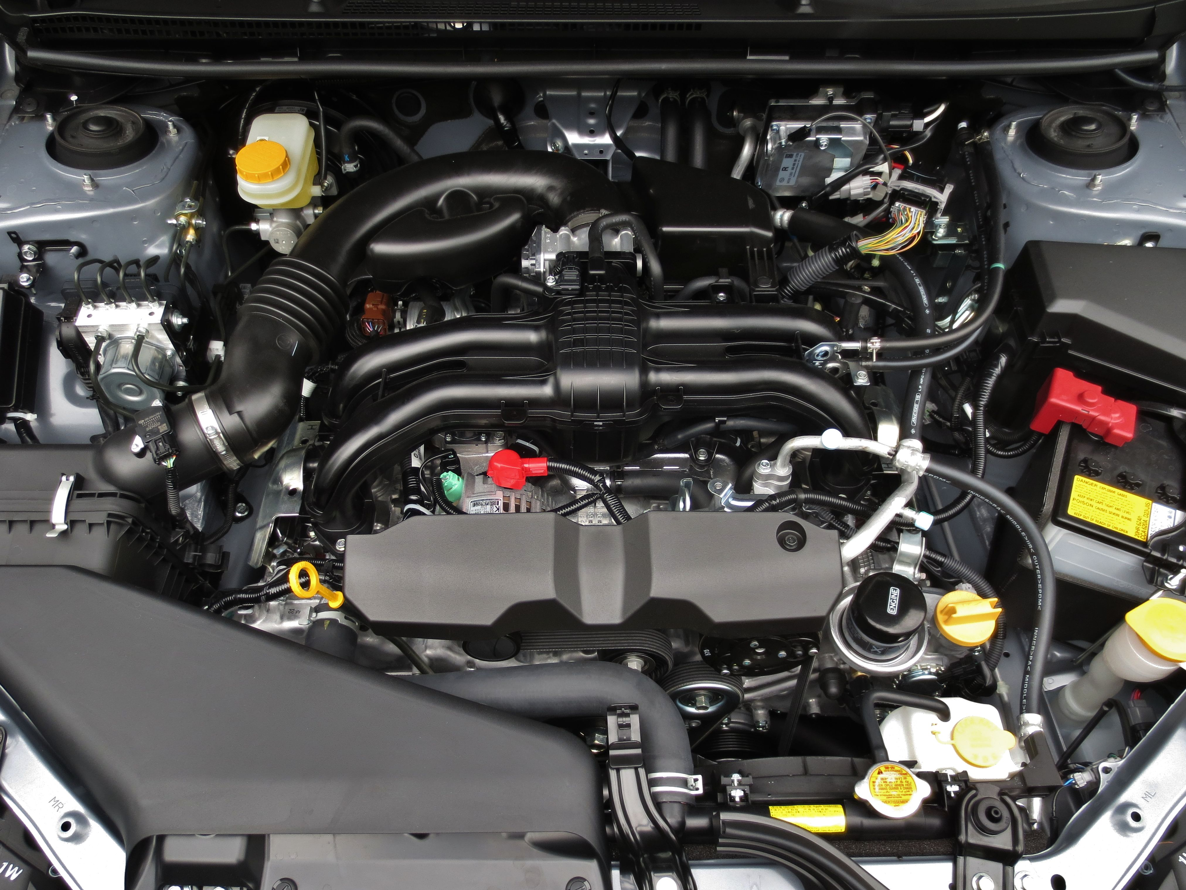 2015 Subaru XV 2.0i FB20 NA engine.